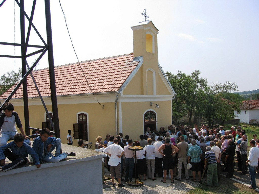 Church of St. Elijah Dubovо